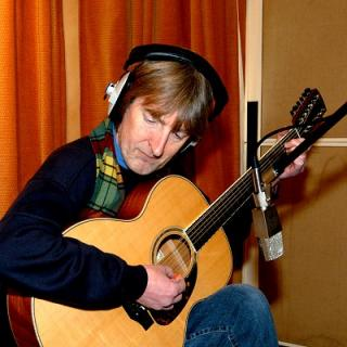 Former Genesis guitarist Anthony Phillips, 2005.